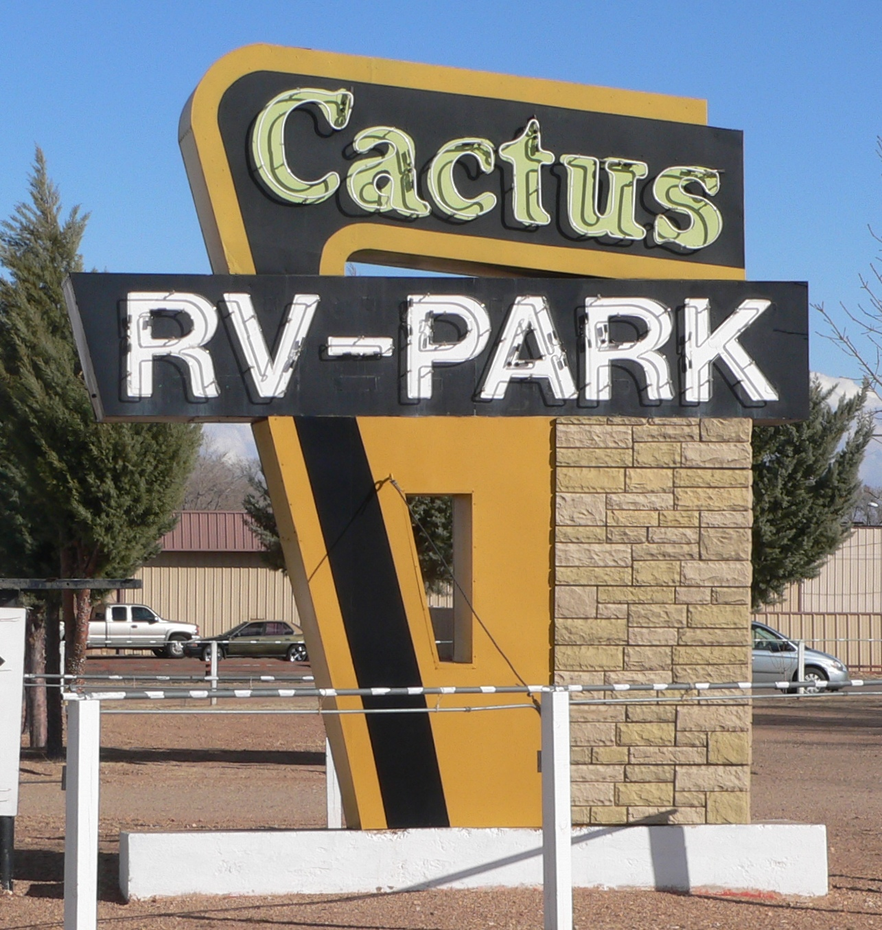 Cactus RV Park, located at 1316 E. Tucumcari Boulevard in Tucumcari, New Mexico. Sign on Tucumcari Boulevard, seen from the west.